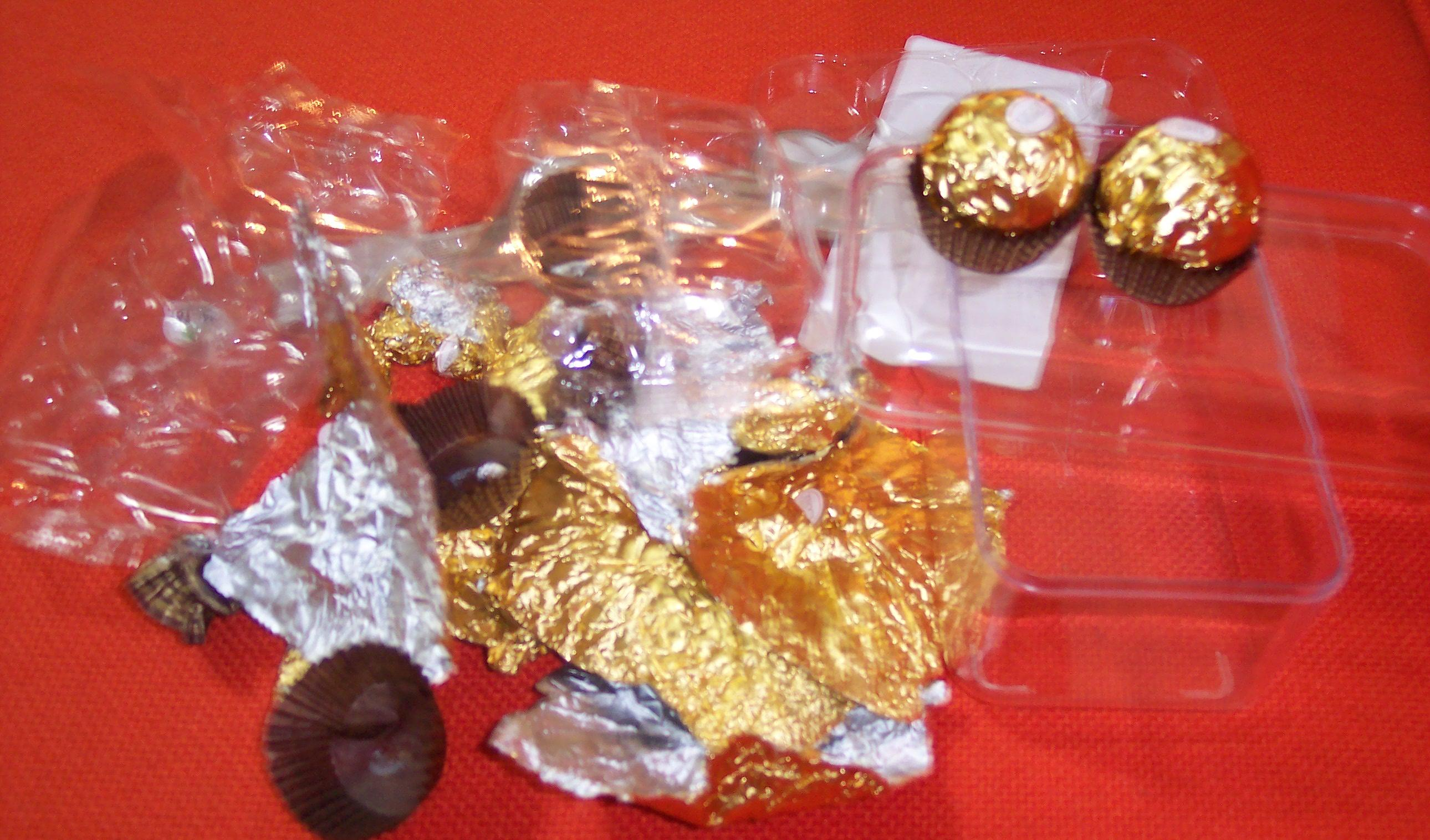 Packaging exceed example from a chocolate package.